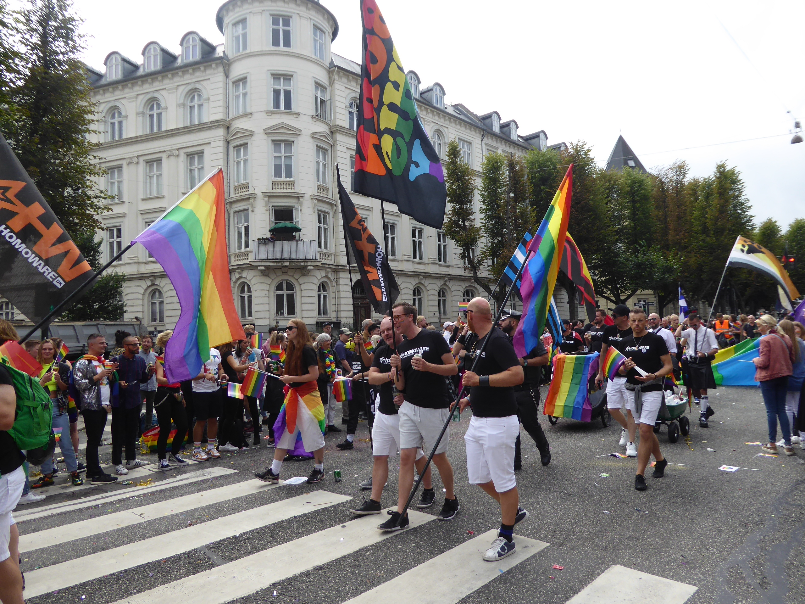 The annual Copenhagen Pride Parade on Frederiksberg Allé in Frederiksberg in Copenhagen.